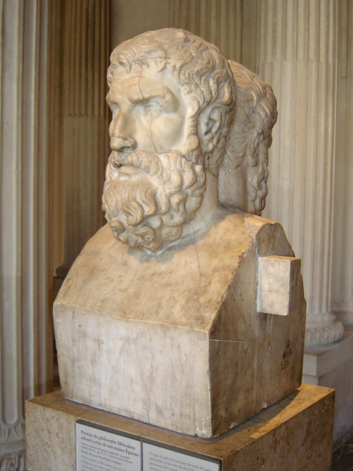 Hermes-type bust (pillar with the top as a sculpted head) of Epicurus leaned with his back against his disciple Metrodorus of Lampsacus (the younger) (note : the legend at the bottom of the hermes is mixed with the Metrodorus side). Pentelic marble, Roman artwork, Imperial Era (2nd-half of the 2nd century ?). Found in Rome, Italy.